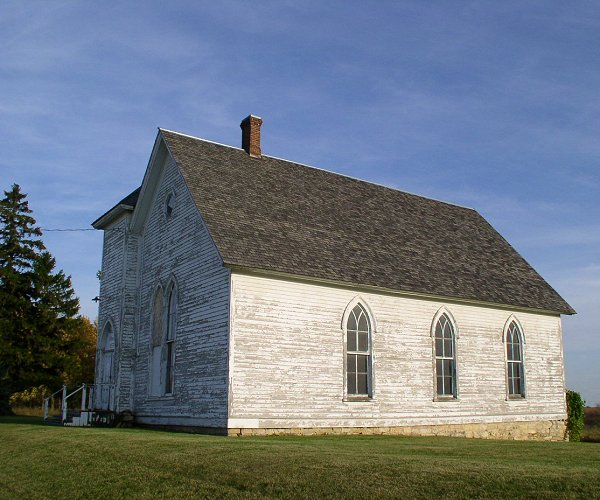 Rice Lake Church near Rice Lake State Park in Minnesota